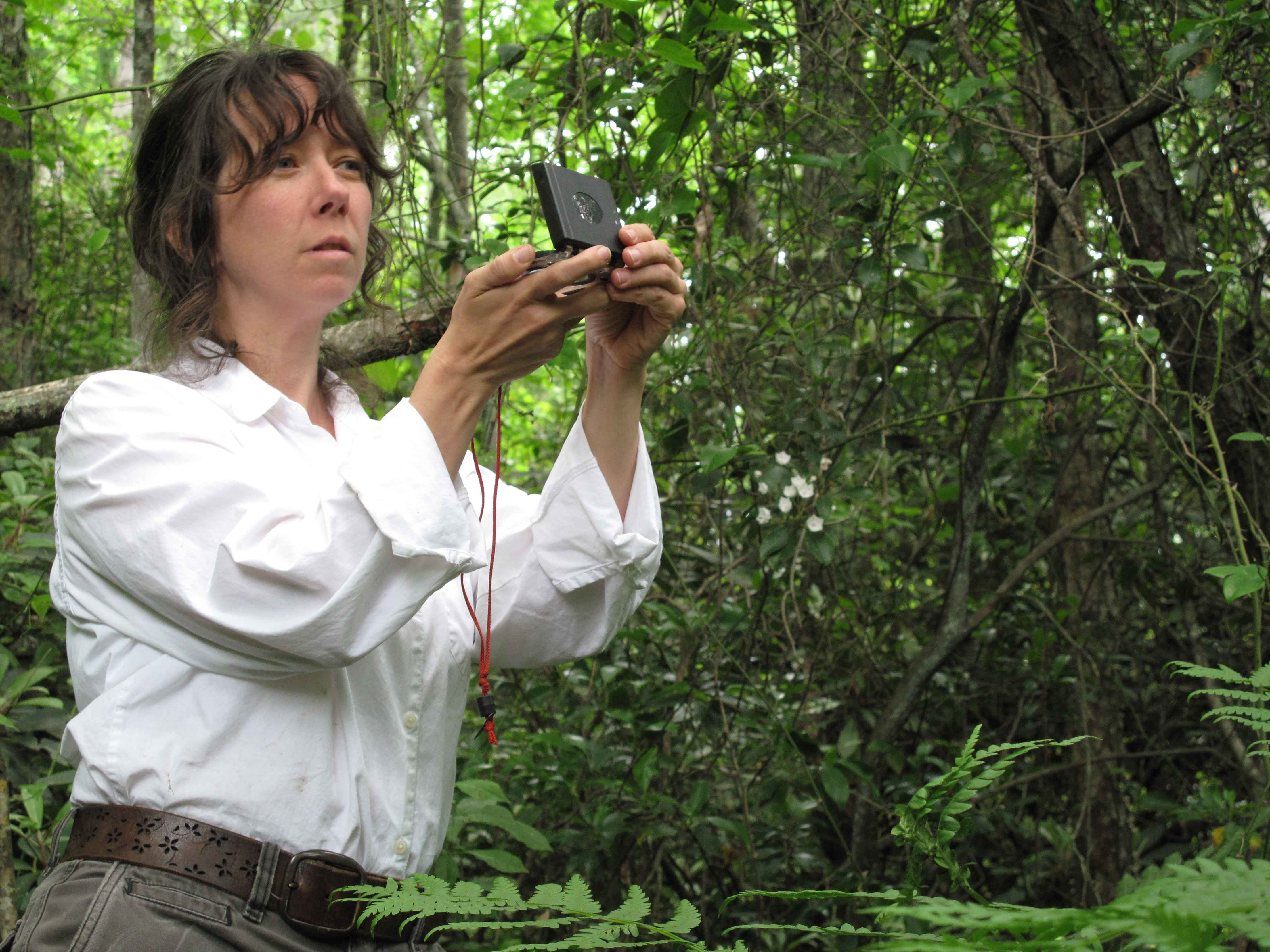 Image title: Female takes a compass bearing Image from Public domain images website